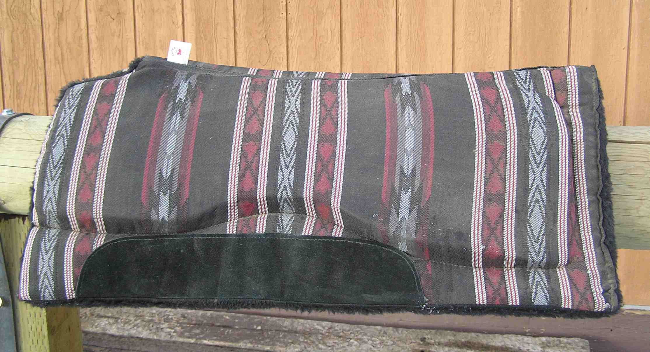 A modern western saddle pad. The top looks like a traditional blanket, but the underside has foam or felt for additional support to the horse